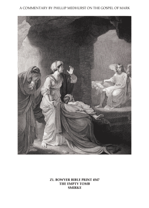 the empty tomb. Smirke. In the Bowyer Bible in Bolton Museum, England. Print 4547. From “An Illustrated Commentary on the Gospel of Mark” by Phillip Medhurst. Section Z. the empty tomb. Mark 16:1-8.